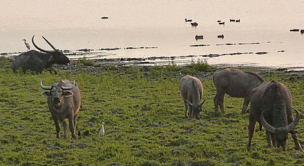 Kaziranga Water Buffalo (Assam)